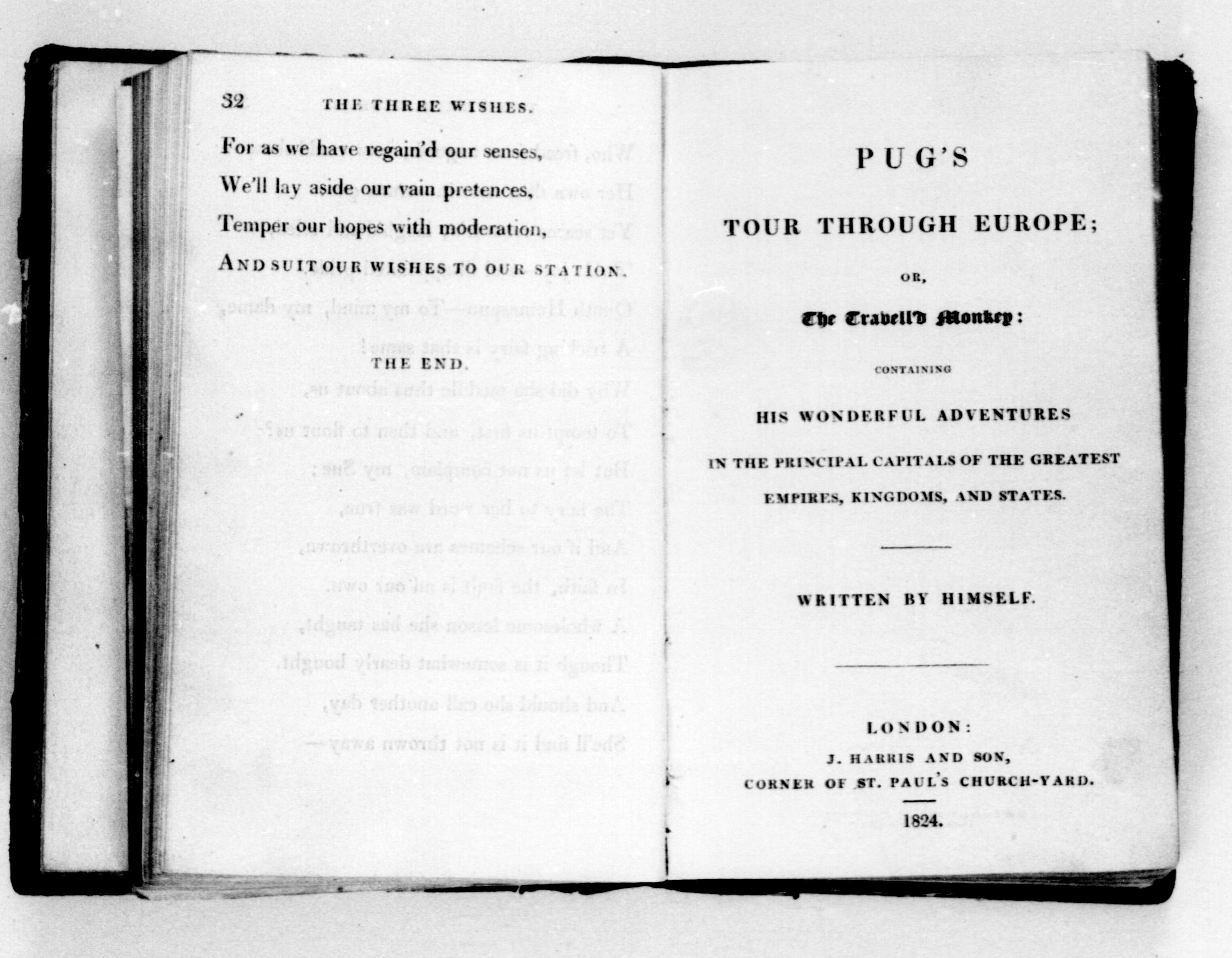 Suit our wishes to our station - a quote from The Three Wishes by Catherine Ann Dorset